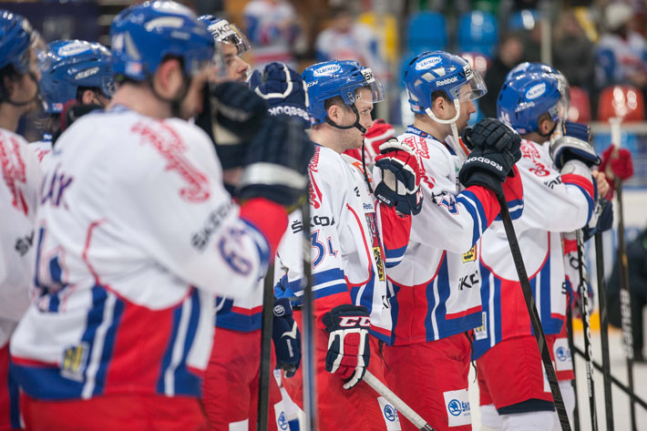 Czech national hockey team on Euro Hockey team 2012/2013